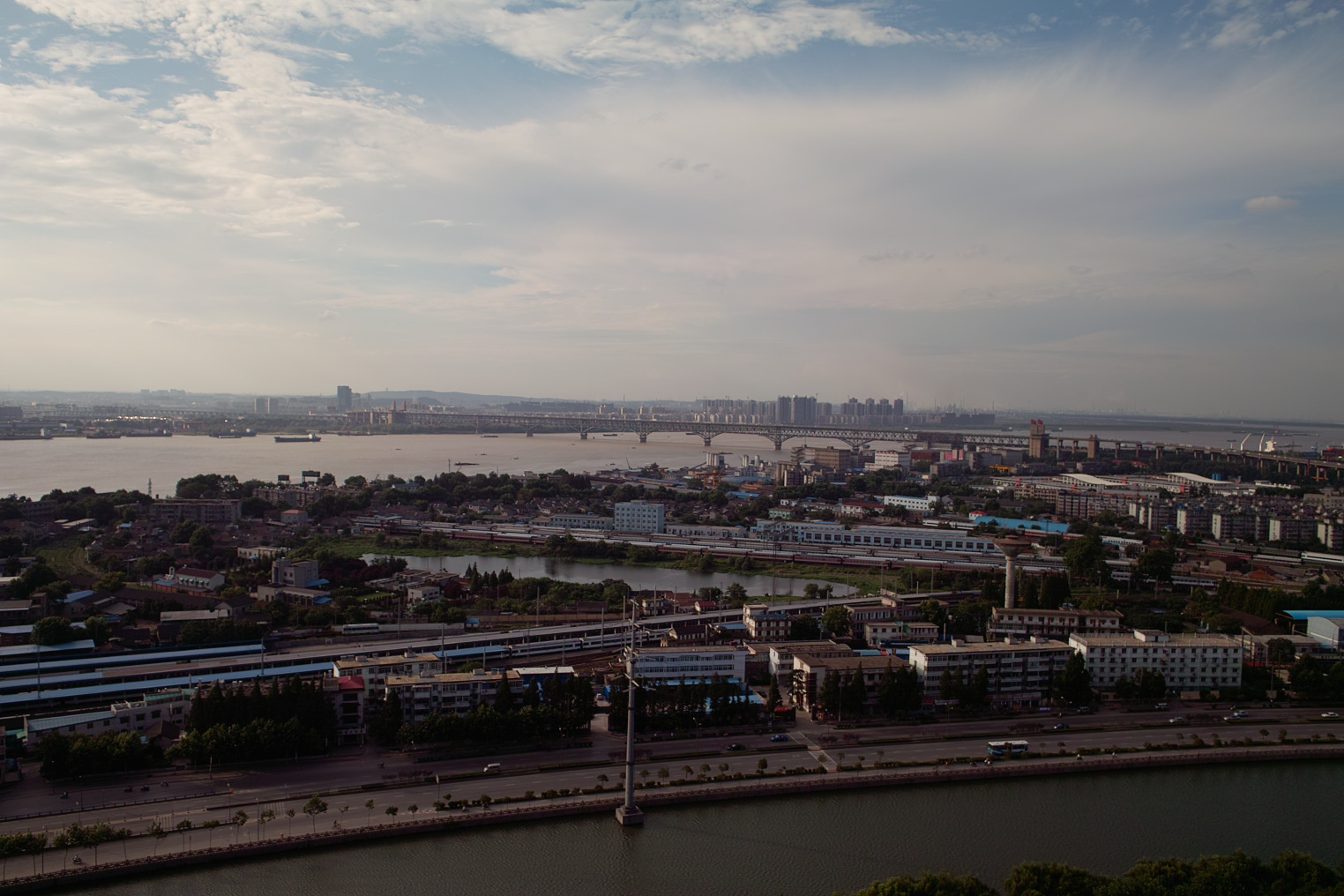 near yangtze river